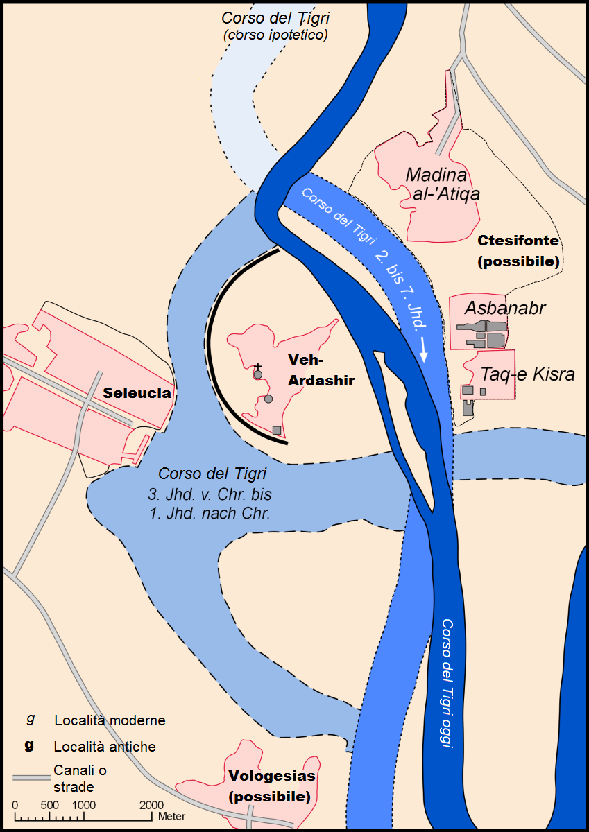 Italian version of File:Karte Seleucia Ktesiphon.png